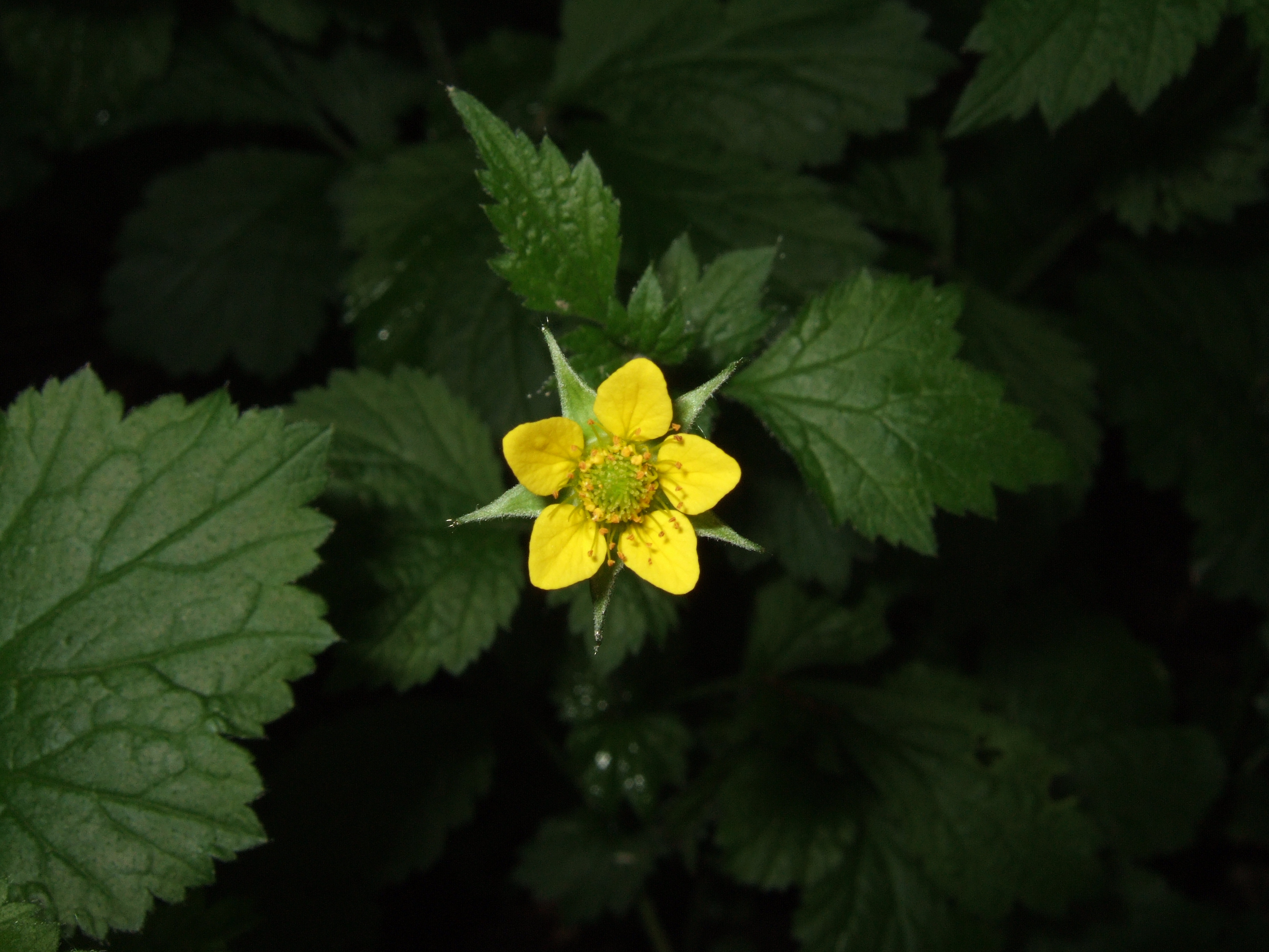 Geum urbanum, flower